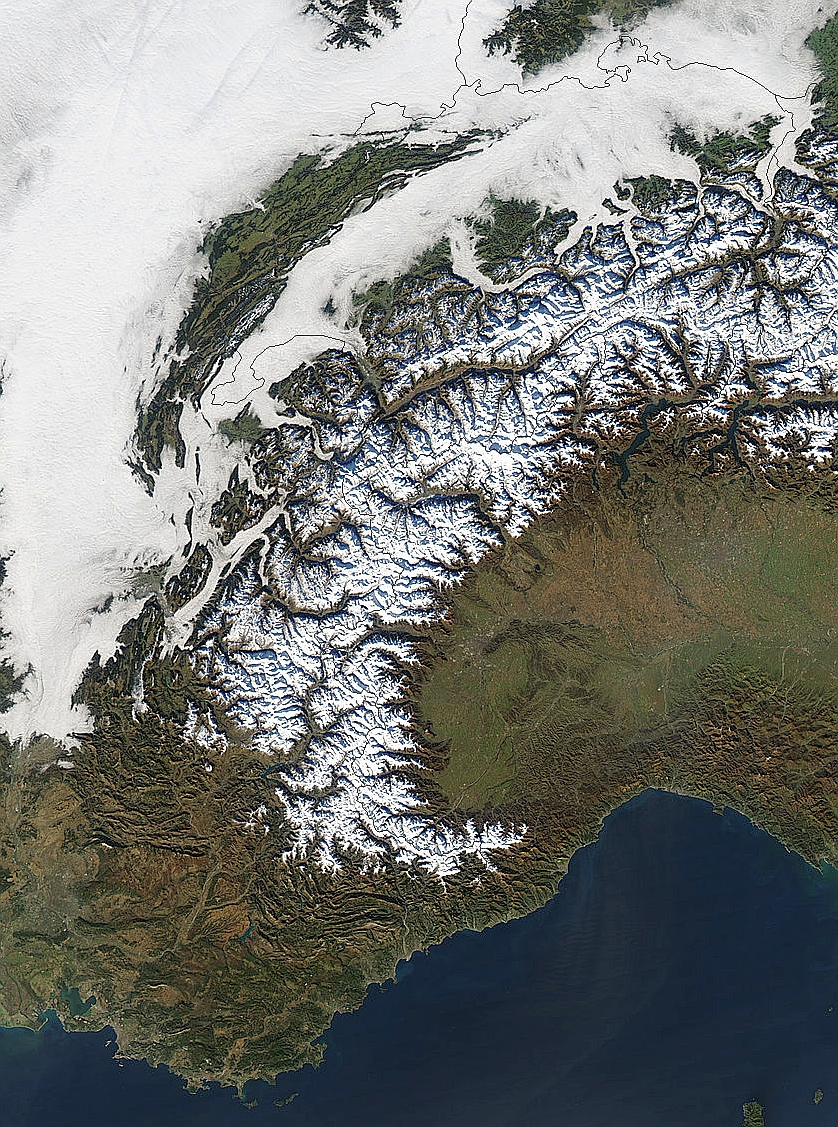 Western alps from space (true-color Terra MODIS image from December 11, 2004. )